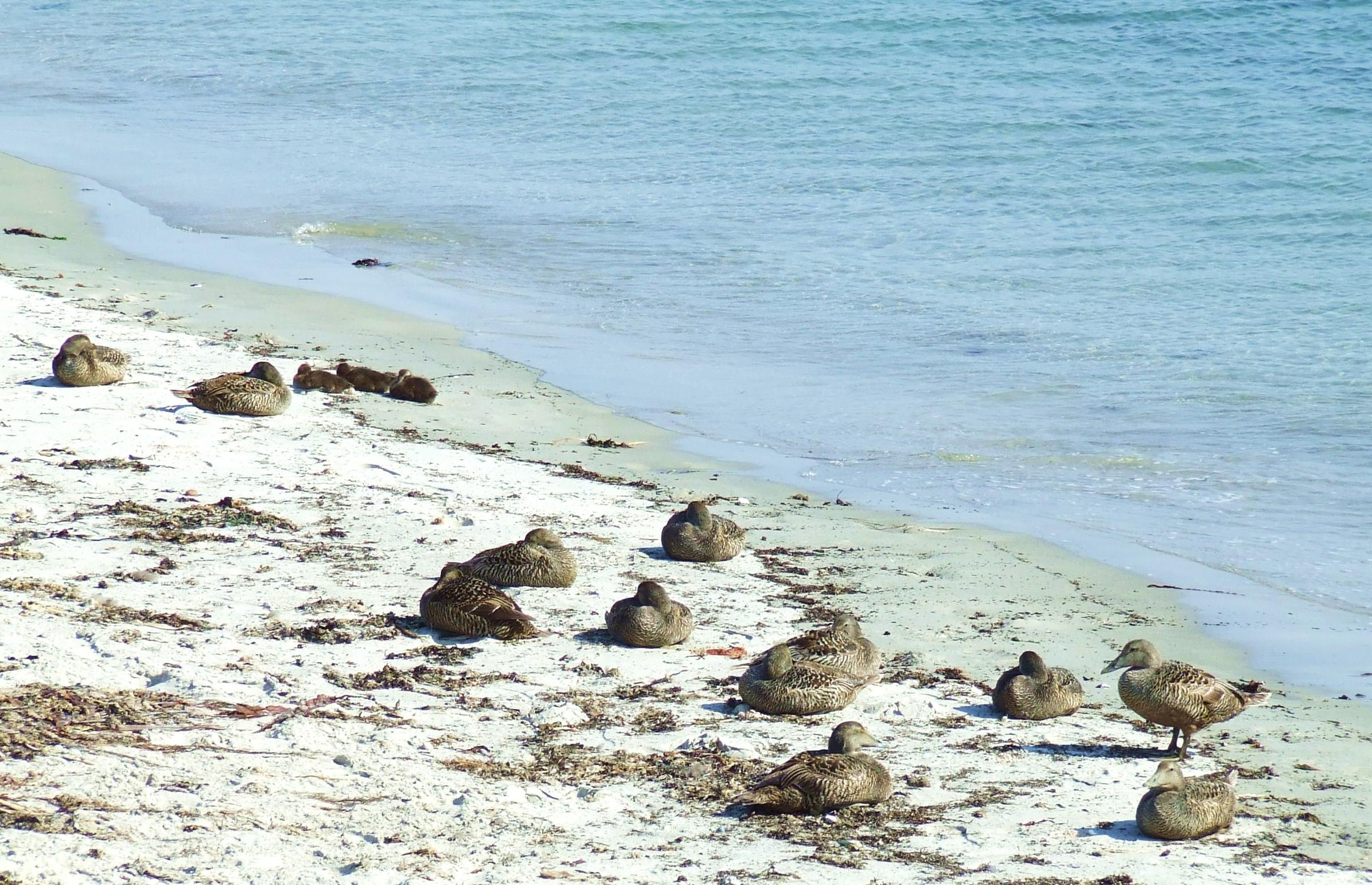 A group of Common Eiders (Somateria mollissima), both chicks and adults, rests at the beach of Düne, a small island to the east of Heligoland in June 2007